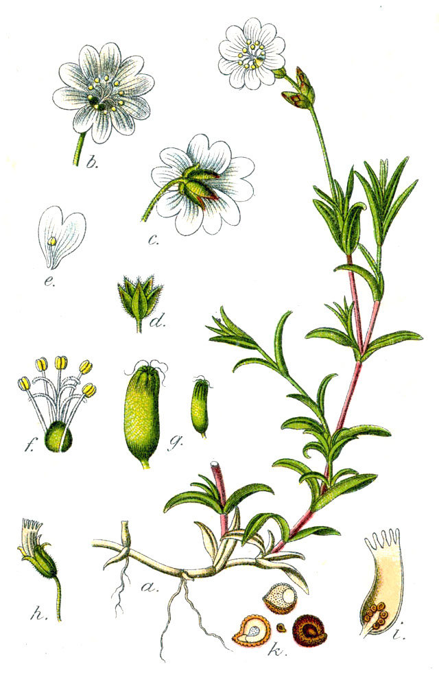 Cerastium arvense L., syn. Alsine arvensis (L.) E.H.L.Krause Original Caption Horn-Miere, Alsine arvensis